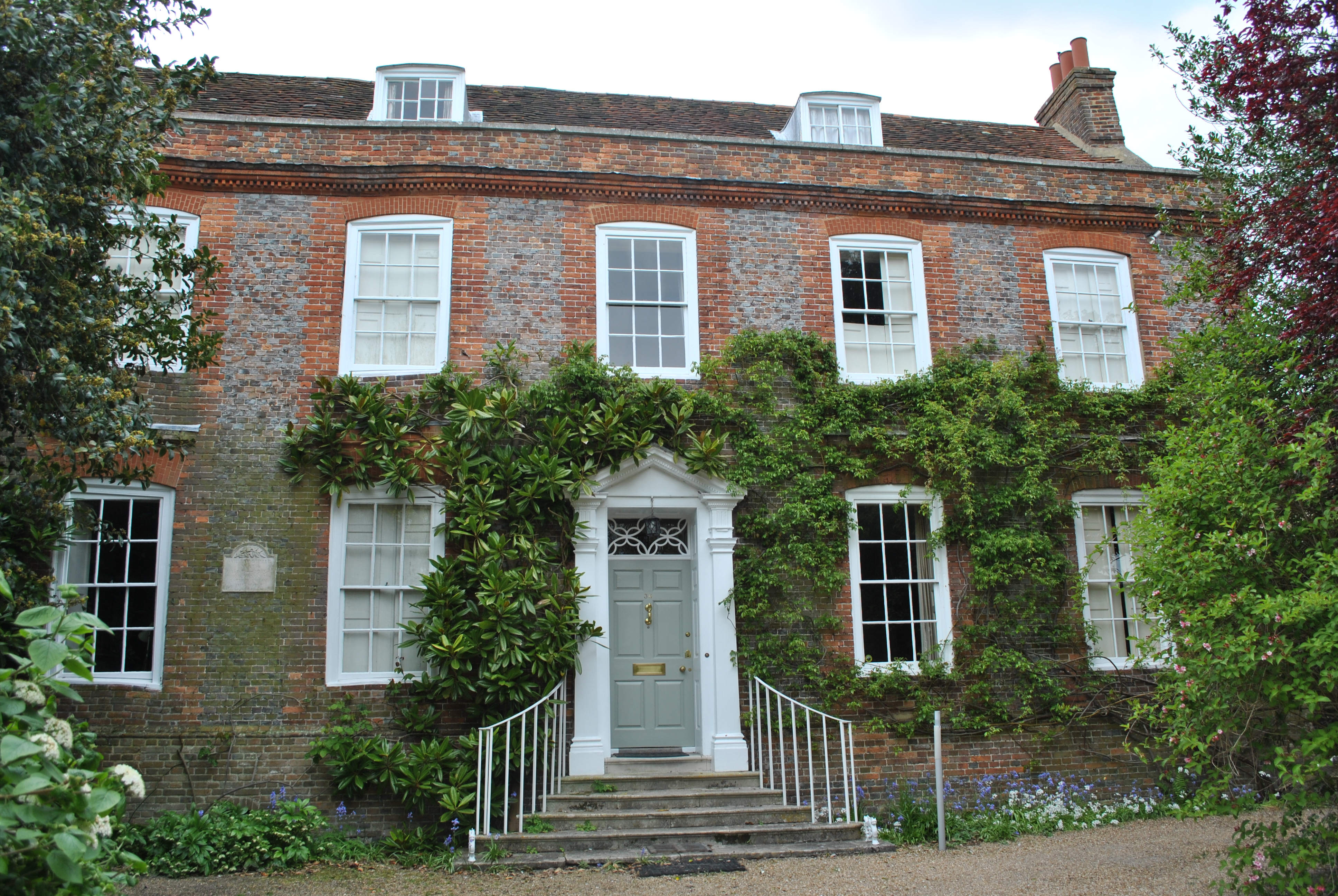 Chantry House, Steyning, 2017, Originally published in Queer Places, Vol. 2.1: Retracing the Steps of LGBTQ people around the World